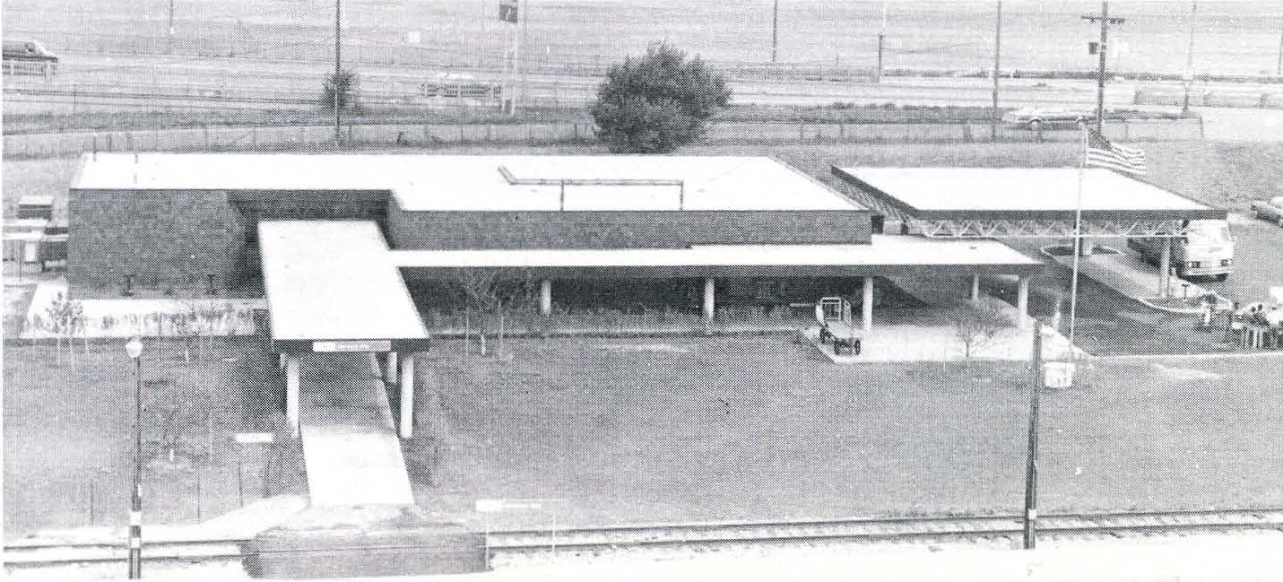 The new Cleveland station viewed from Pulaski Square in July 1977